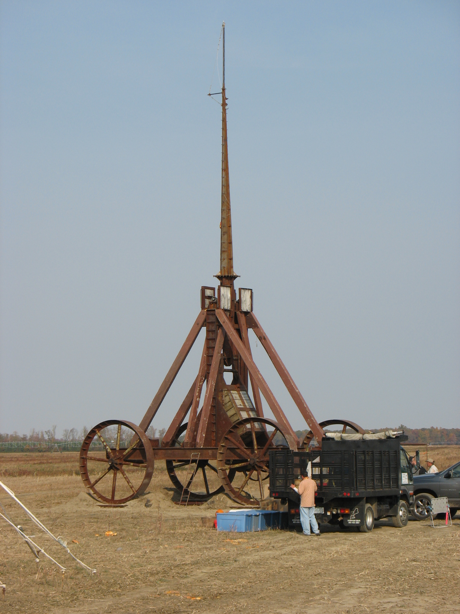 Trebuchet at 2008 Punkin Chunkin World Chamionships, Sussex County Delaware